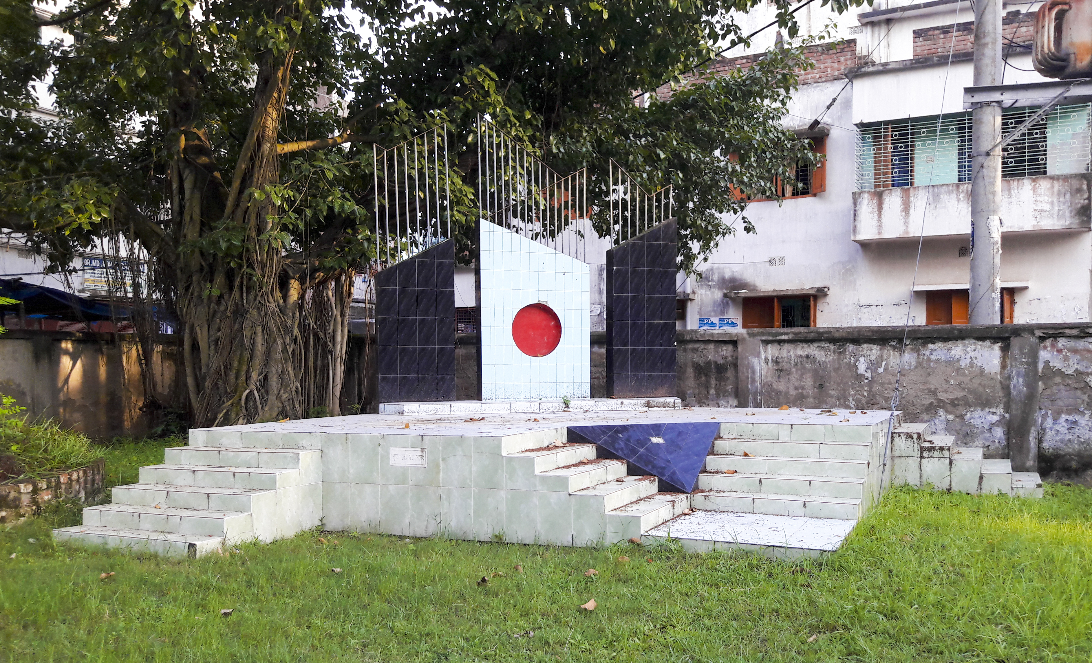 Institute of Health Technology, Rajshahi or short form I.H.T Rajshahi One of the Government Medical Institute in Rajshahi, Bangladesh.